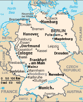 Map of Germany, extended from CIA World Fact Book, showing largest cities, islands and river names. Large city names (10) have been re-labeled with font-face Arial or Arial Narrow, as font-size 9 or 10; the island/region names are labeled in italic font. Germany contains over 2,500 cities/towns, but they are evenly dispersed around the main towns. This map has locator code "GermanyCIAx" for use in map-locator templates, such as English Wiki Template:Location_map_GermanyCIAx & Template:Location_map_skew (which skews northern coordinates for multiple map markers / labels). The latitude/longitude coordinates are NOT equirectangular, but rather, narrow towards the north, with longitudes about 9% closer together at the top. The original map image was public domain; the extensions are as follows: narrowed 43px as 285px to magnify 16%; some rivers have been added; bolded names of largest towns to be readable as 220px thumbnail size; added towns: Dortmund, Mainz, Potsdam, Heidelberg, etc.